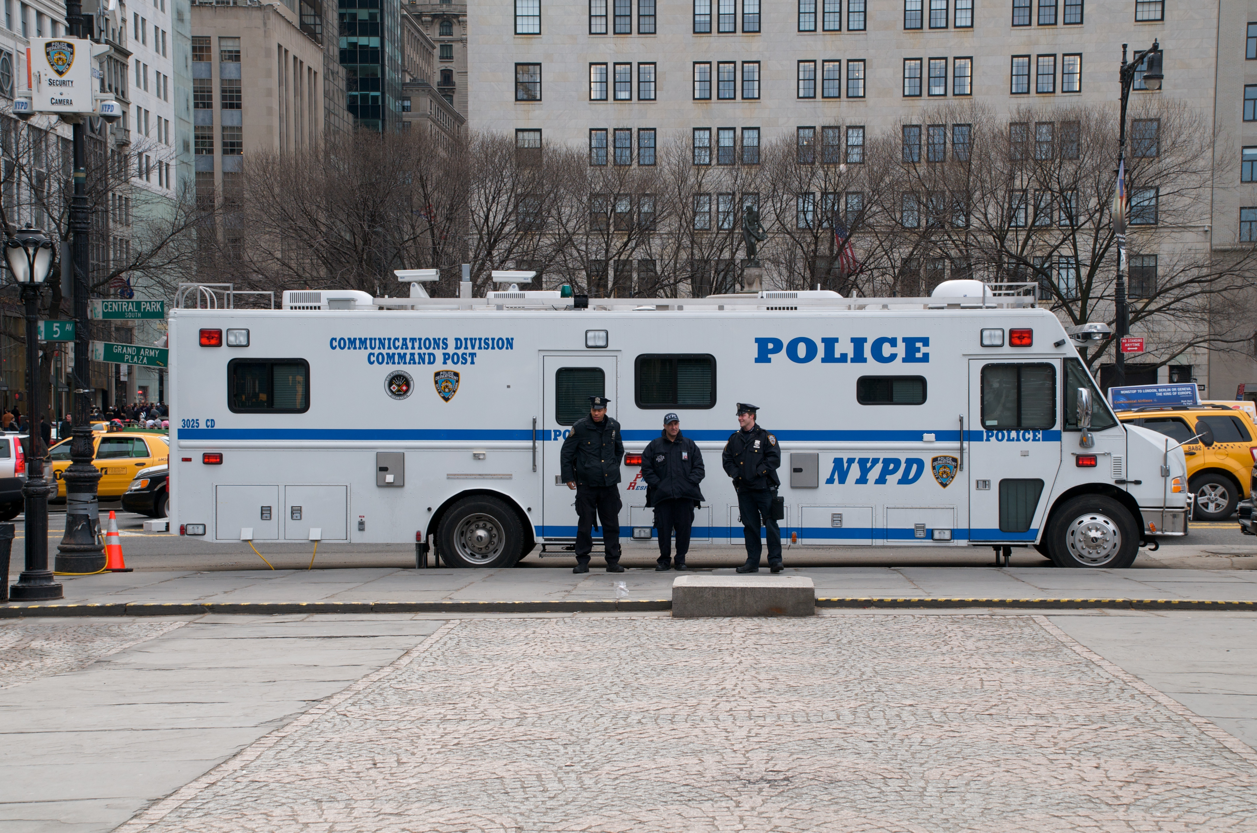 Command unit of the NYPD communications division